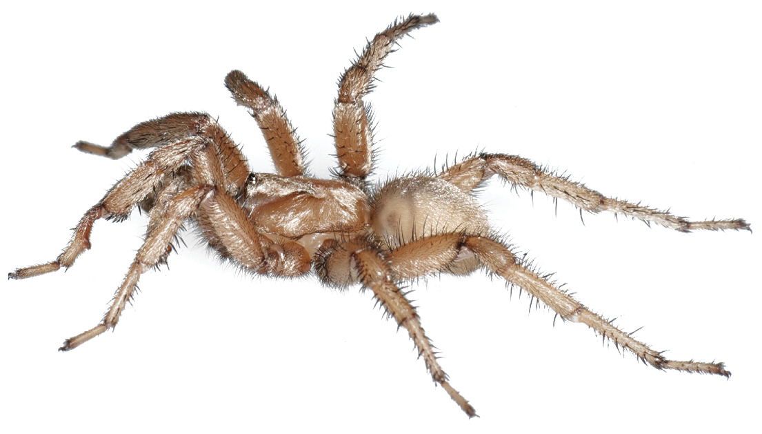 Aptostichus stephencolberti specimens, live photographs. Male holotype from San Mateo Co.